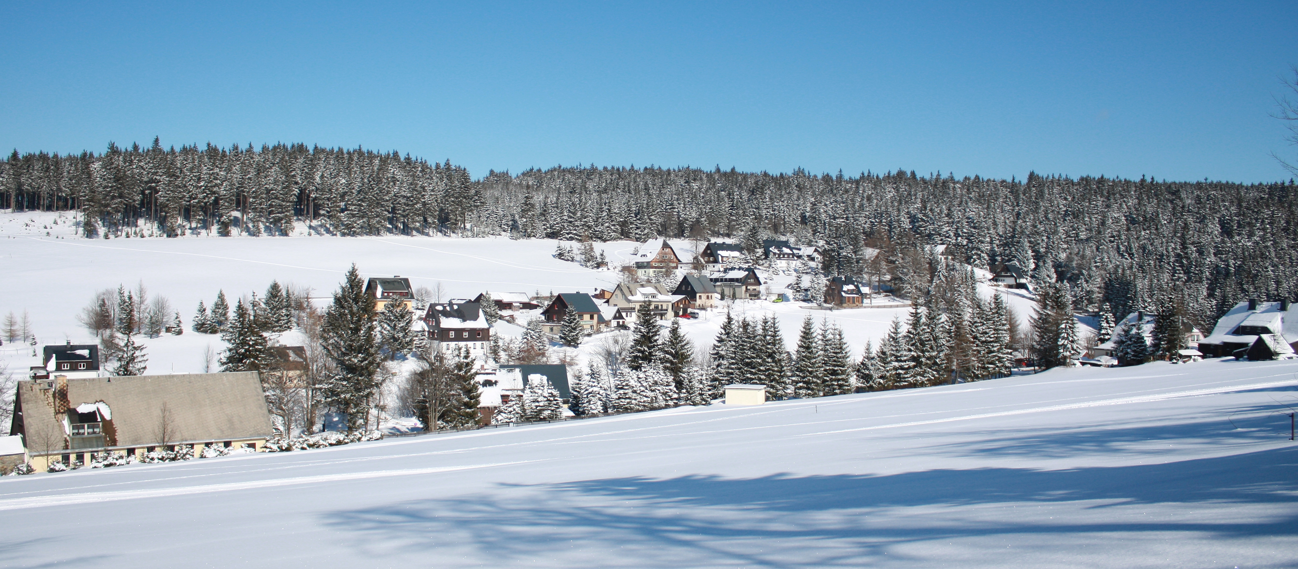 Tellerhäuser, Breitenbrunn, Saxony, Germany